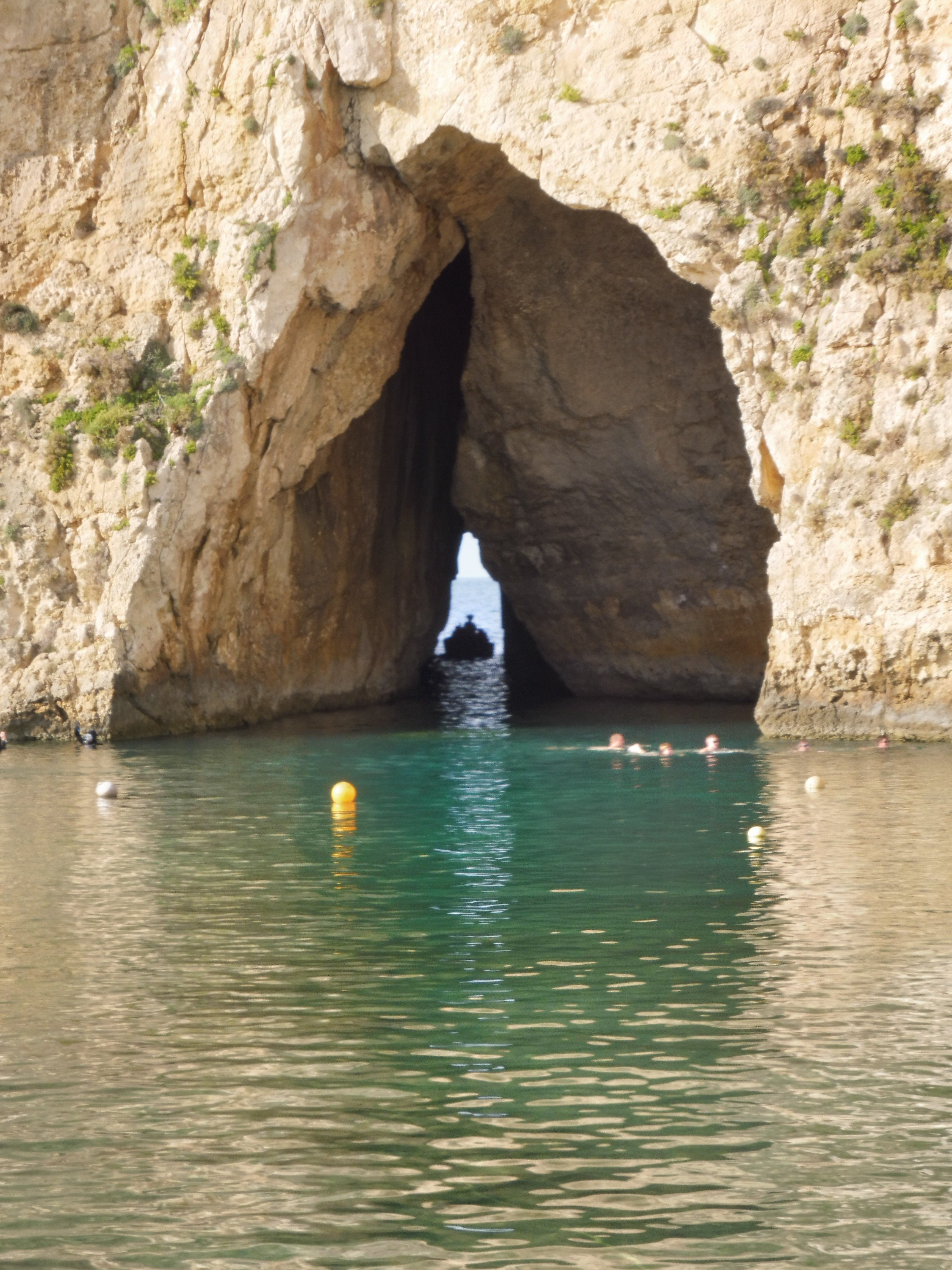 Natural tunnel between the Inland Sea and the Mediterranean Sea at Dwejra on Gozo (Malta) 2019